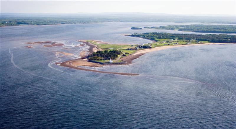 This is and aerial photo taken by Jeff Vienneau ( Posted by author.